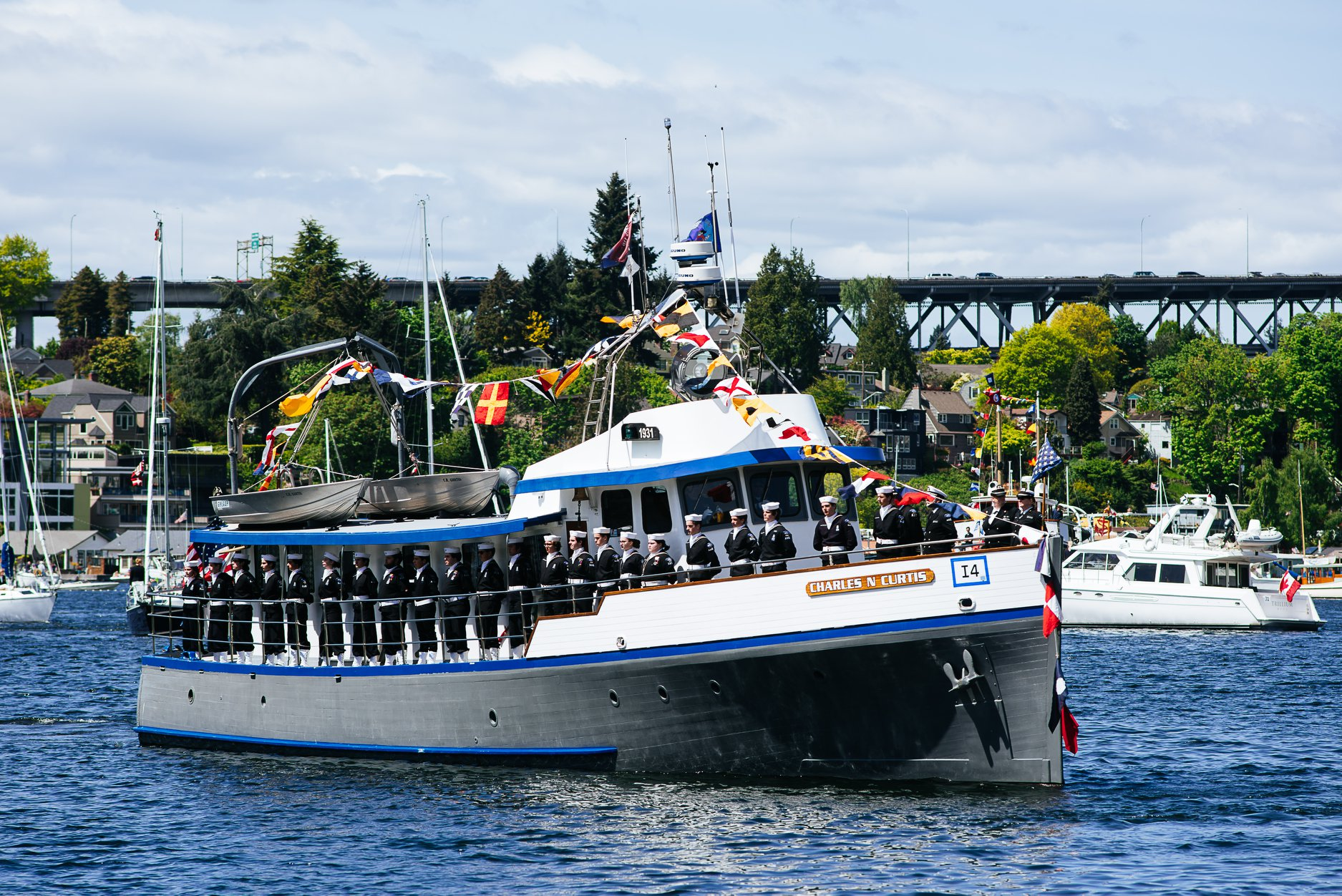 The Sea Scout Ship 110 Charles N Curtis participating in the Seattle Yacht Club Opening Day Parade in 2019.